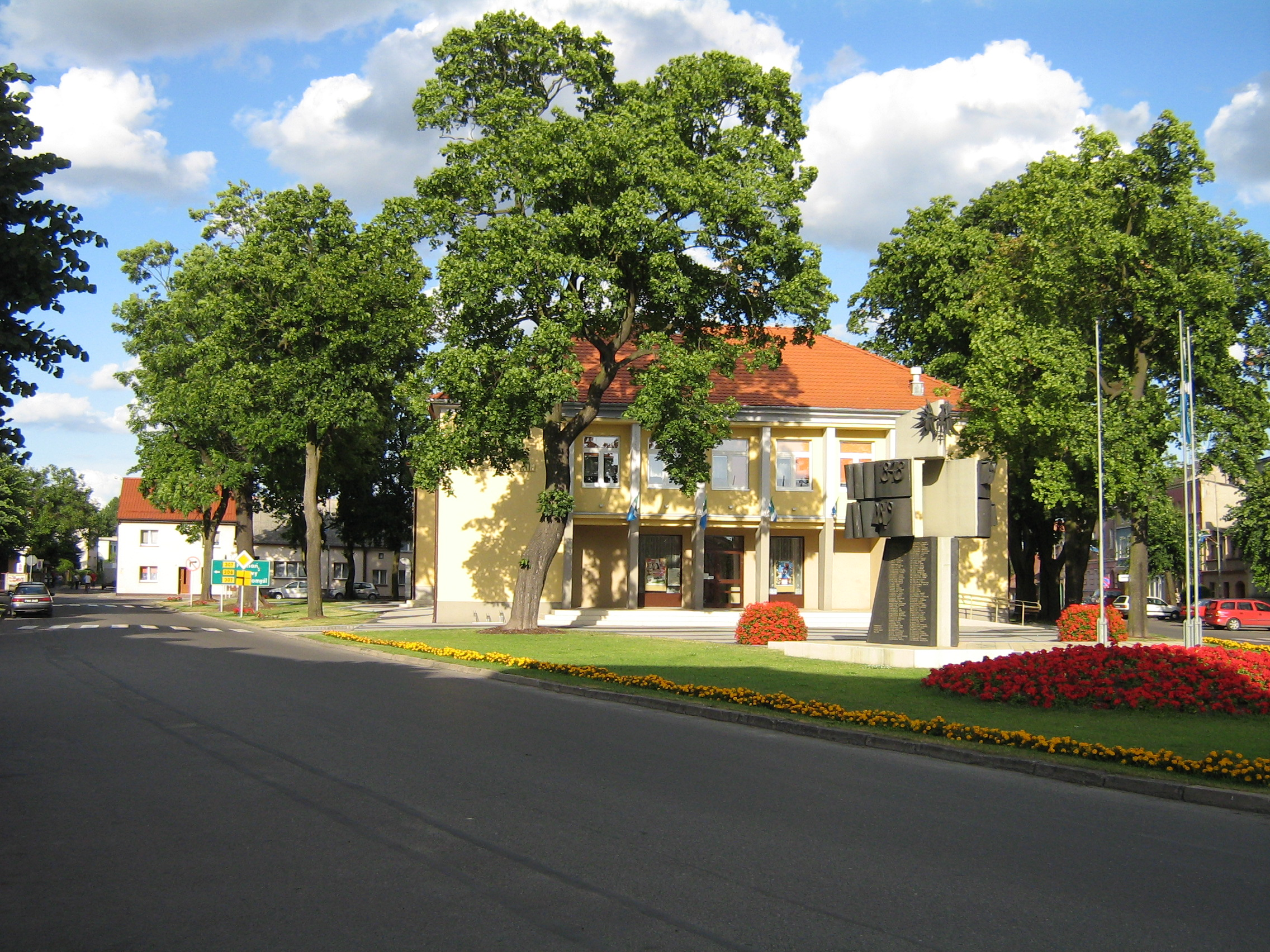 Reszka square in Buk (Poland)